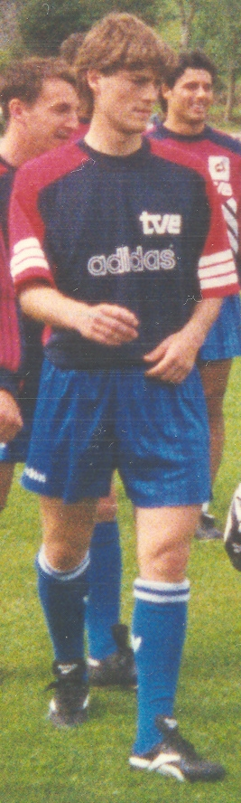 Ex-footballer Julen Guerrero during a training session.